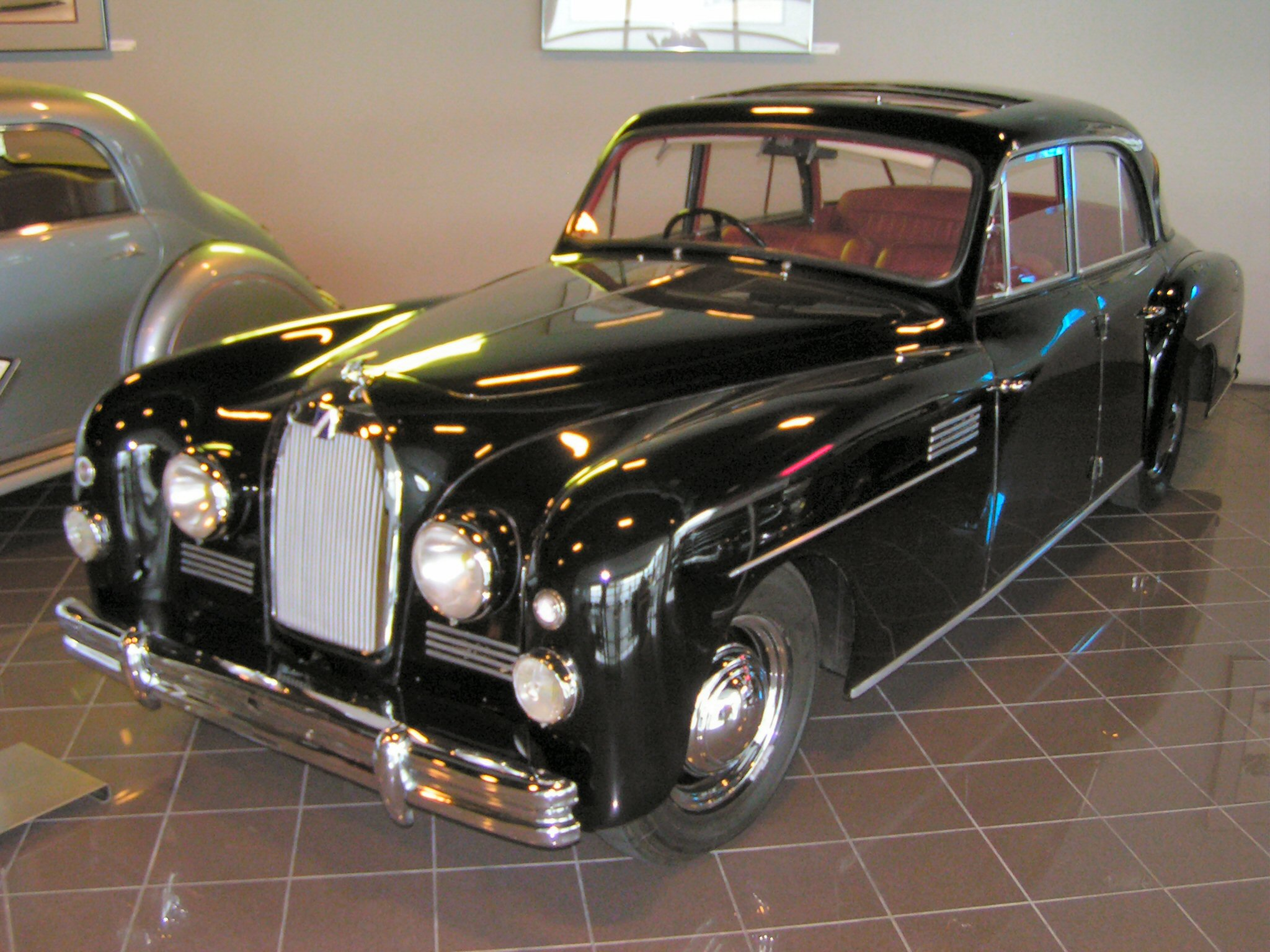 Talbot Lago T15 QL6 with 2.7-litre 120 bhp six-cylinder engine